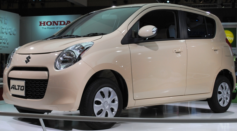 Suzuki Alto.